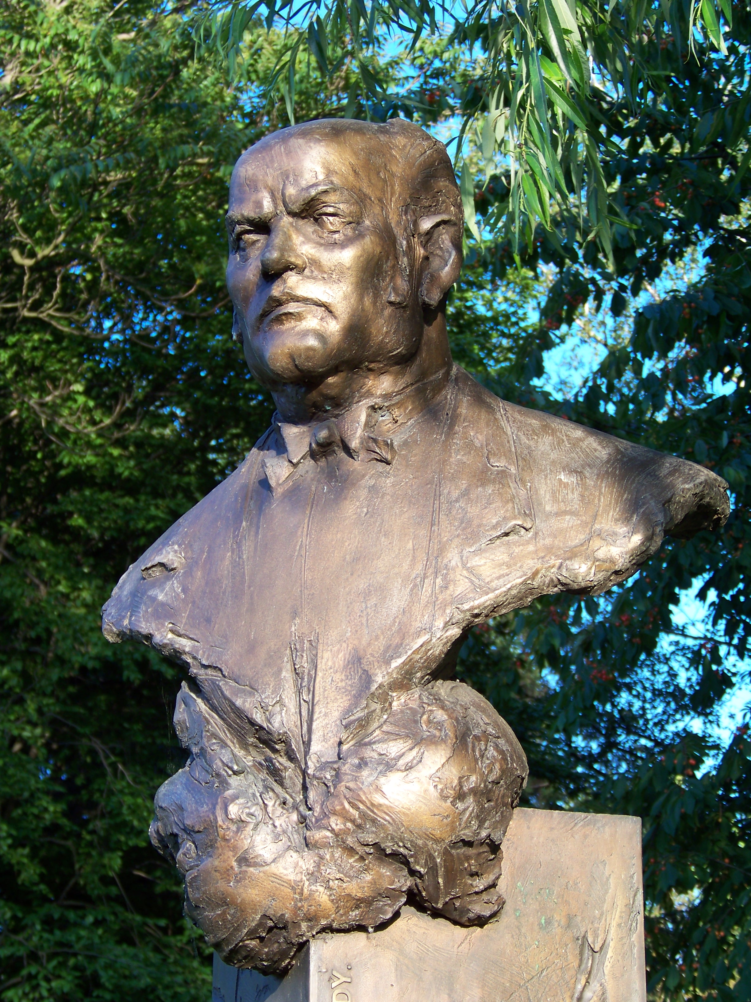 Hostivař, Prague, the Czech Republic. Antonín Švehla memorial near Pražská and Švehlova streets.